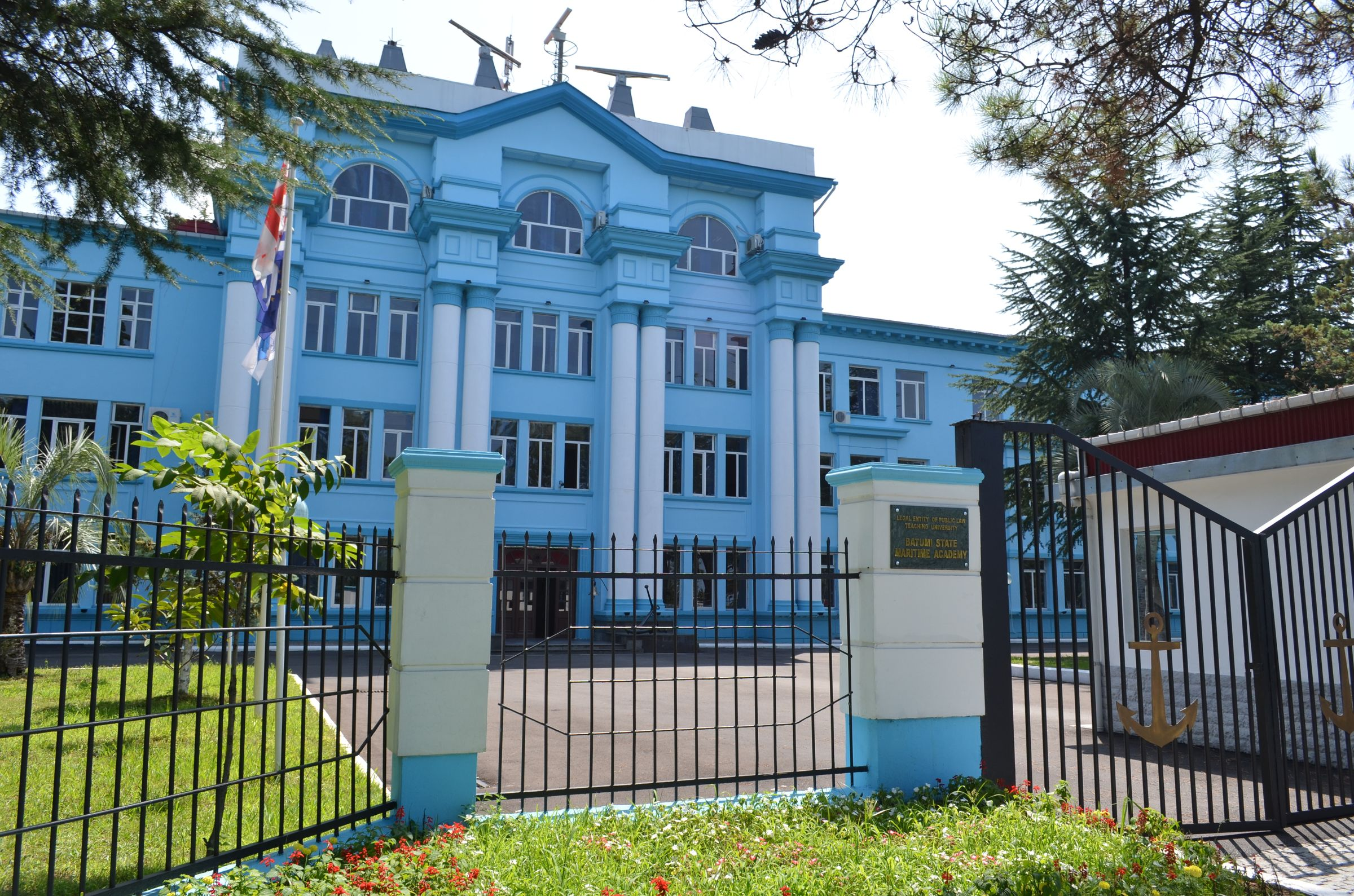 Facade of the Batumi State Maritime Academy